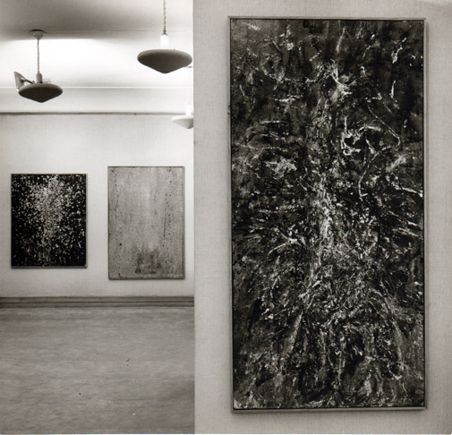 A salon exhibit in Paris, featuring the works of Francois Fiedler